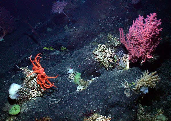 Some animals from the New England Seamount community. The large pink coral on the right is a gorgonian soft coral (Paragorgia sp.), as is the one with the thin stalk at top center (Metallogorgia sp.). A brisingid sea star perches on a dead coral skeleton and two species of sponges are visible in the lower left. This photograph was taken from Alvin in June 2003.